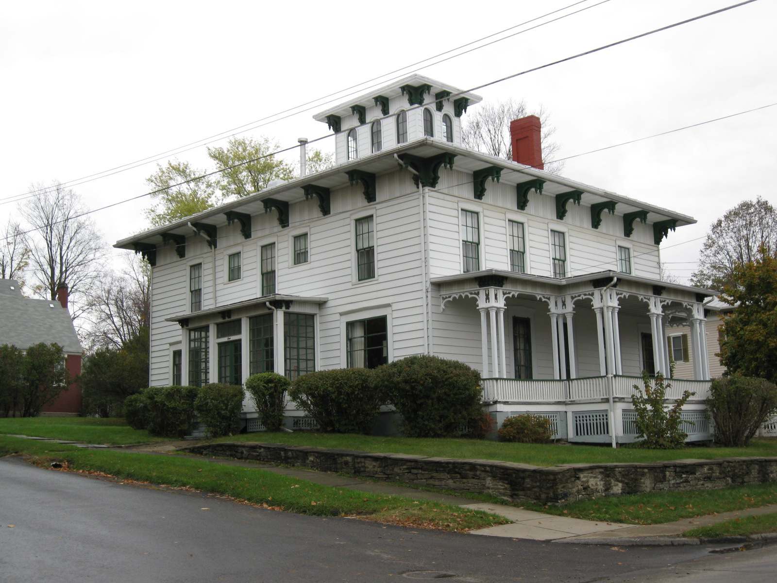 1800s Victorian house, Historic district contributing property, in Addison, New York